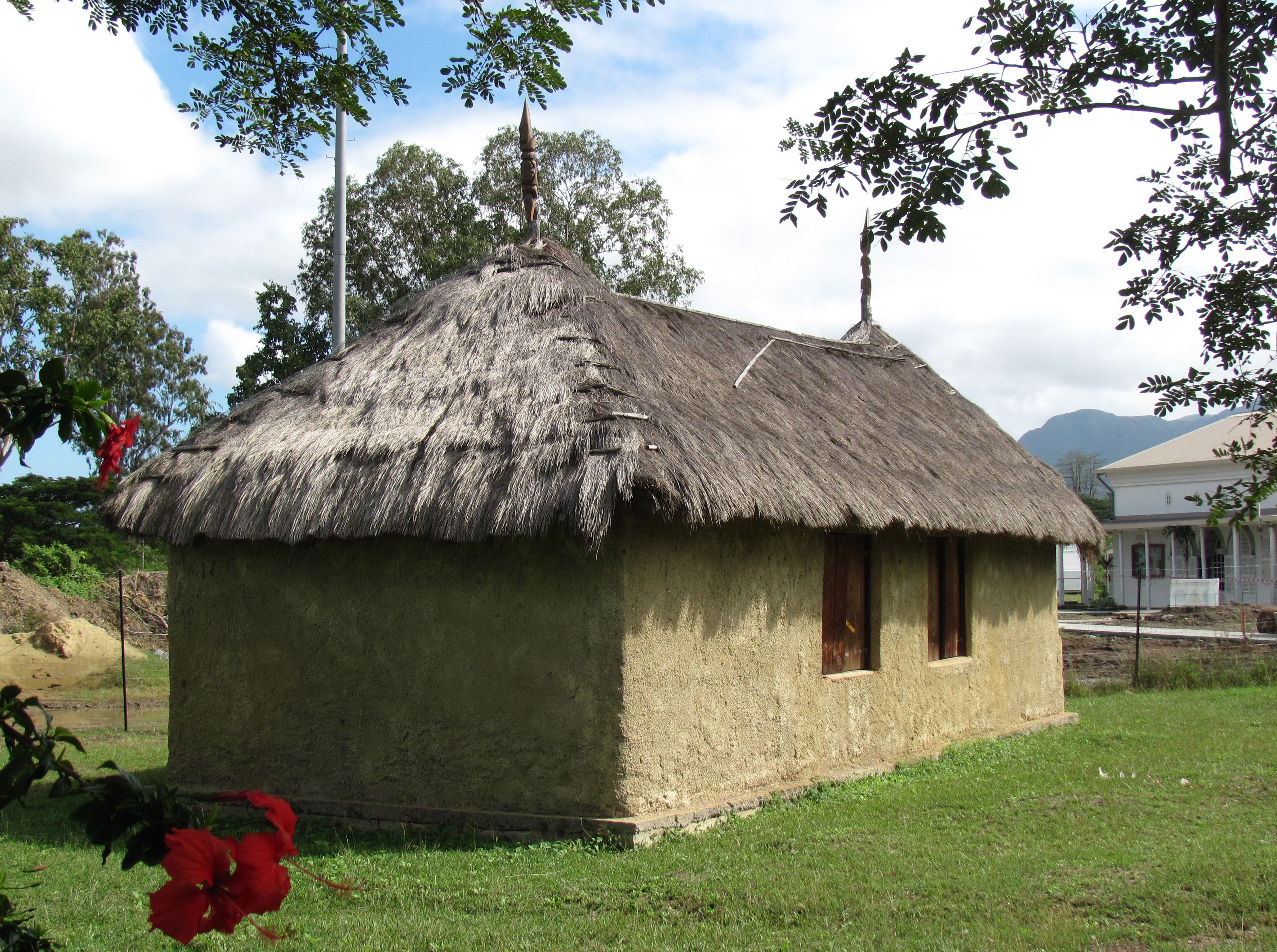 Cultural Center, Koné, New Caledonia